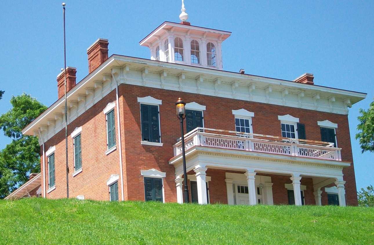 House of Antoine LeClaire, founder of Davenport, Iowa